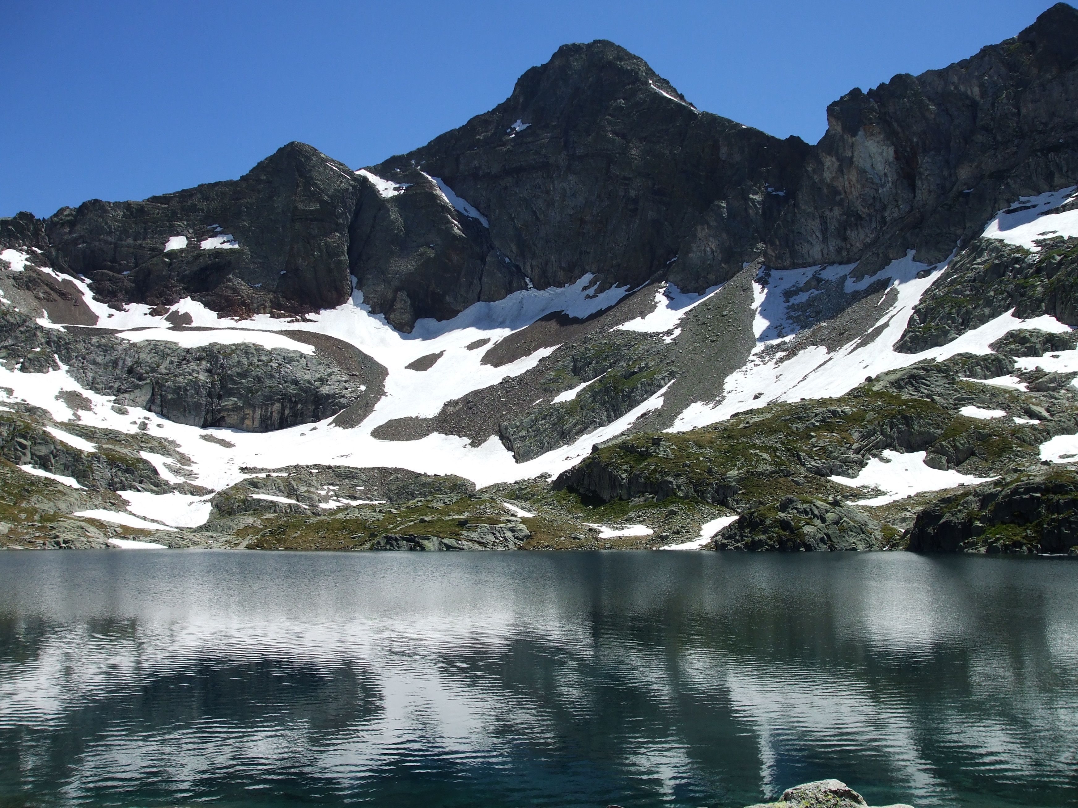 One of Lacs d'Arrémoulit, lakes in Pyrénées-Atlantiques, France